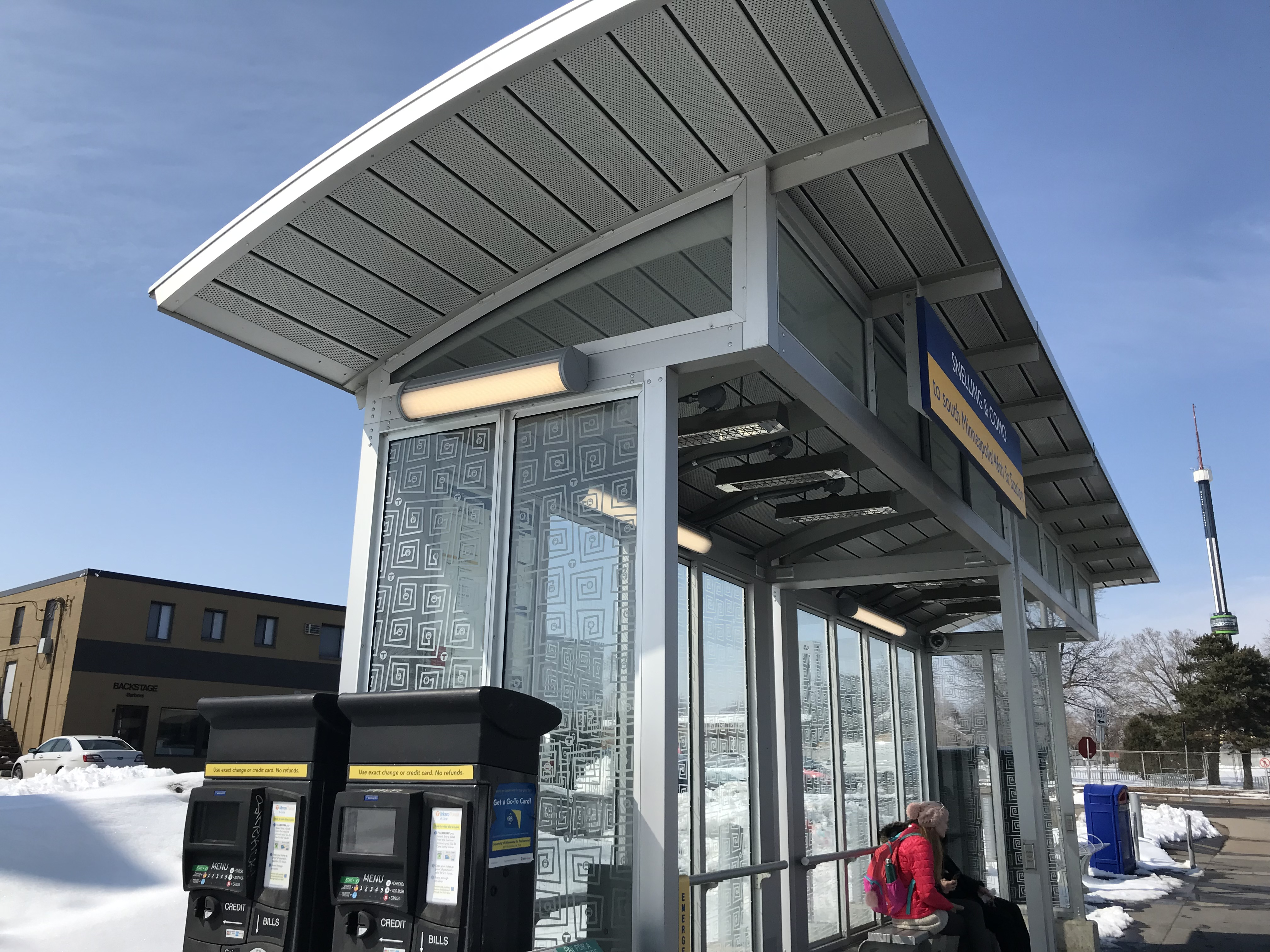 The southbound Snelling & Como A Line station in St. Paul, Minnesota.